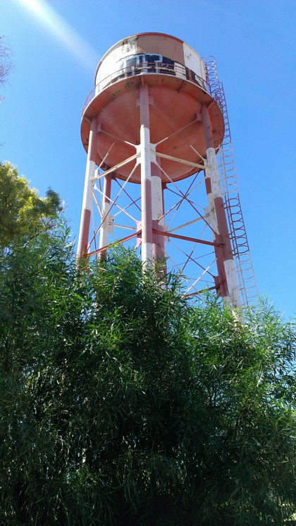 ydatopyrgos